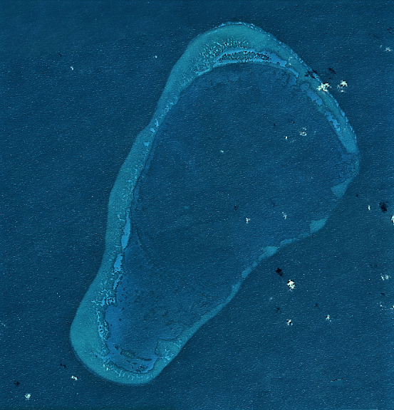 Seahorse Shoal, Spratly Islands